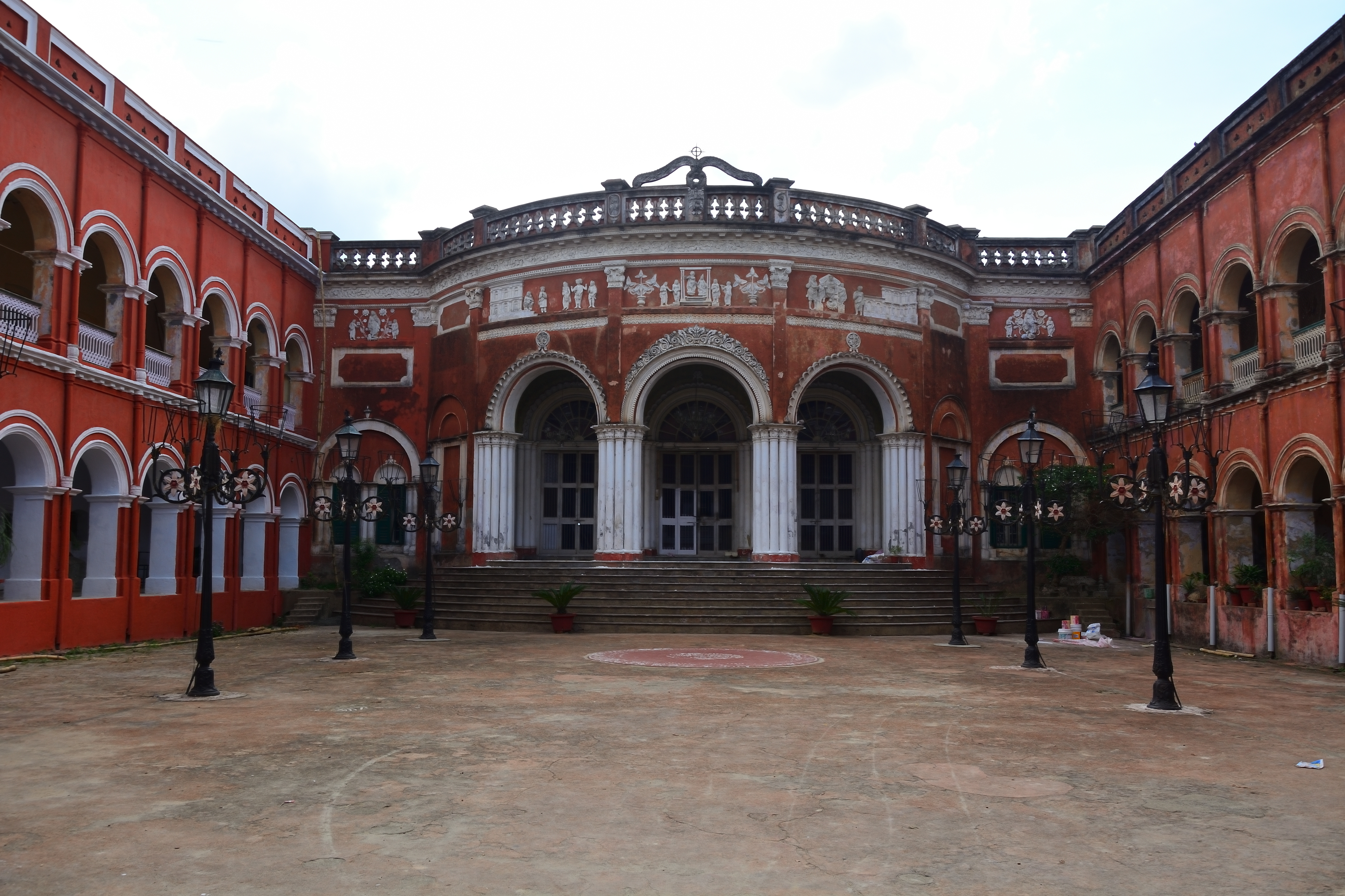 Itachuna Rajbari near Khanan station in Pandua of Hooghly district of West Bengal was built in the middle of the eighteenth century. It is currently used as a heritage homestay.